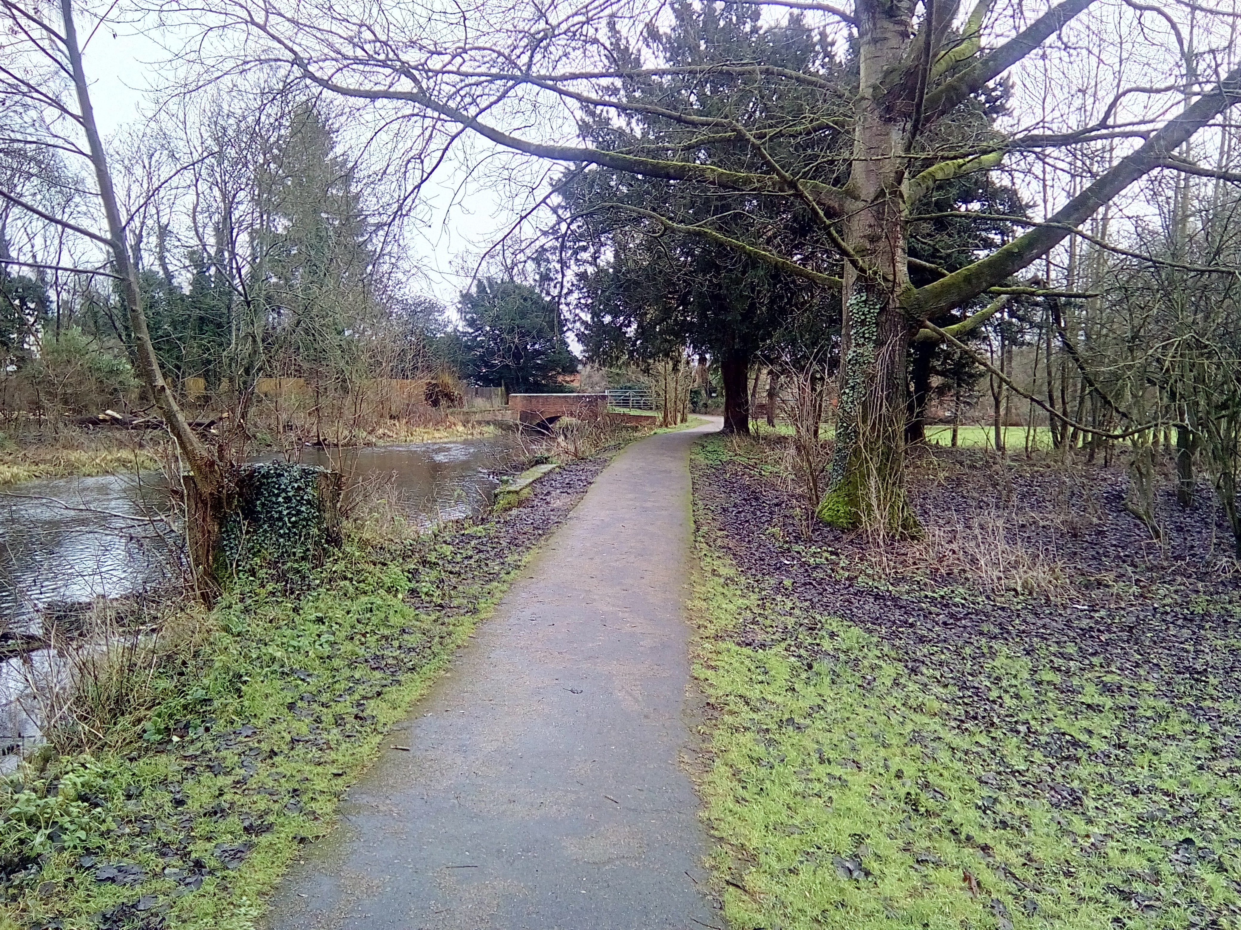 Photograph showing the River Lambourn and the site of the ornamental canal at Shaw House